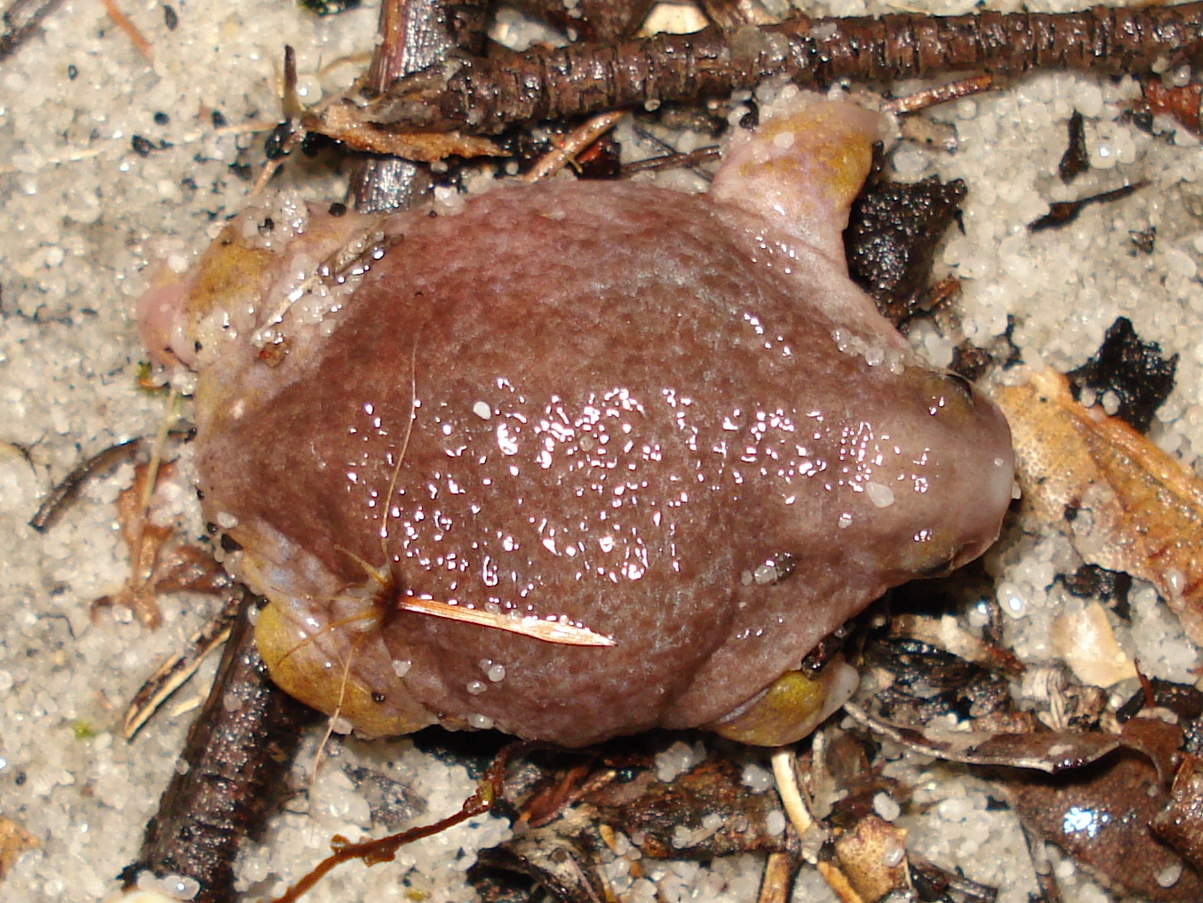 Myobatrachus gouldii from Northeastern suburbs of Perth, Australia.